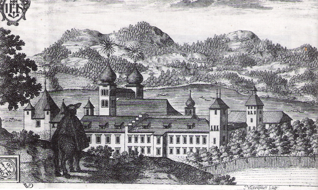 Monestry of Millstatt district Spittal an der Drau in Carinthia / Austria / European Union.